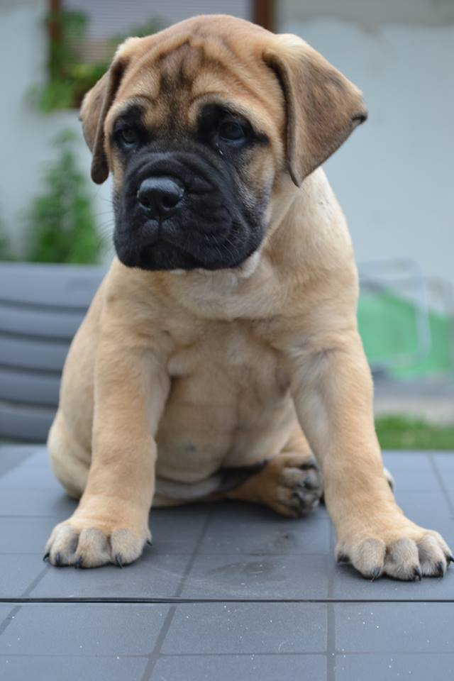 odchov chs Legendary Hills